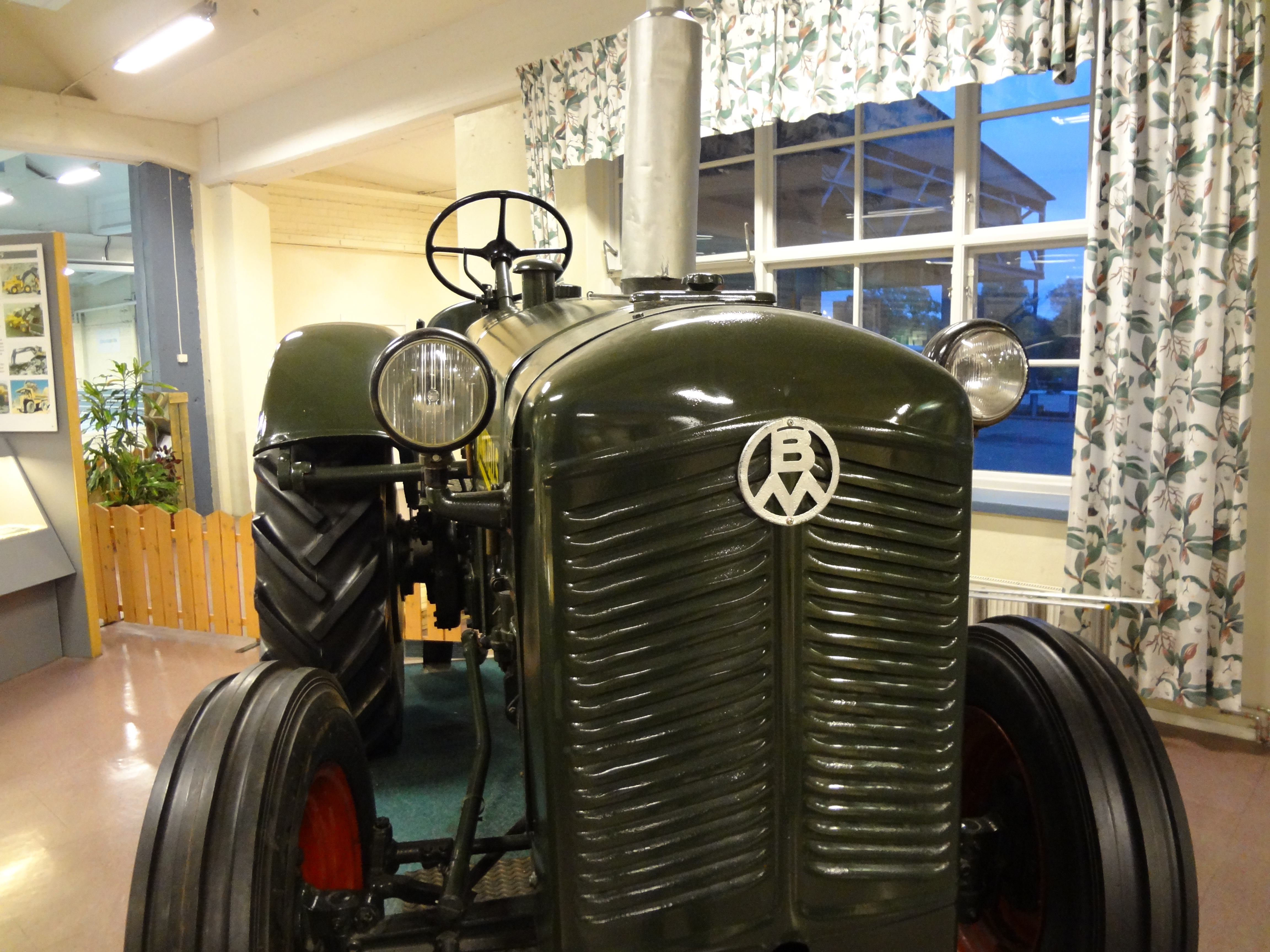 Bolinder Munktell model BM20.